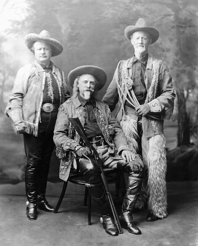 Buffalo Bill (sitting) with Pawnee Bill (left), and Buffalo Jones.